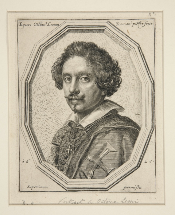 "Self-portrait, wearing a cape with a Knights of Malta Cross," etching and engraving, by the Italian artist and printmaker Ottavio Leoni. Dated 1625. 23.8 cm x 17.4 cm (9 3/8 in. x 6 7/8 in.) Courtesy of the Yale University Art Gallery, Yale University, New Haven, Connecticut.